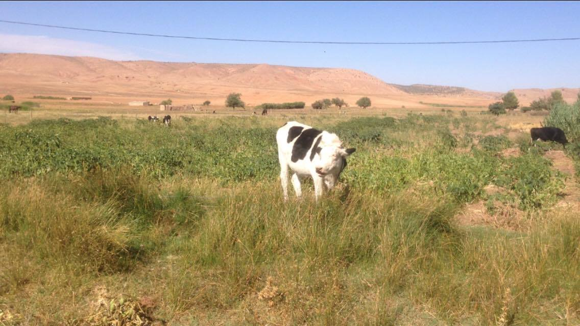 élevage bovin aflou